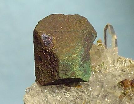 Bornite, Quartz Locality: Dzhezkazgan Mine (Zhezkazgan Mine), Dzhezkazgan, Zhezqazghan Oblysy (Dzezkazgan Oblast'; Dzhezkazgan Oblast'; Djezkazgan Oblast'; Jezkazgan Oblast'), Kazakhstan (Locality at ) Size: 3.6 x 2.2 x 1.2 cm. Lightly iridescent green bornite crystal aesthetically perched upright on a plate of quartz needles. Ex. George Elling Collection.